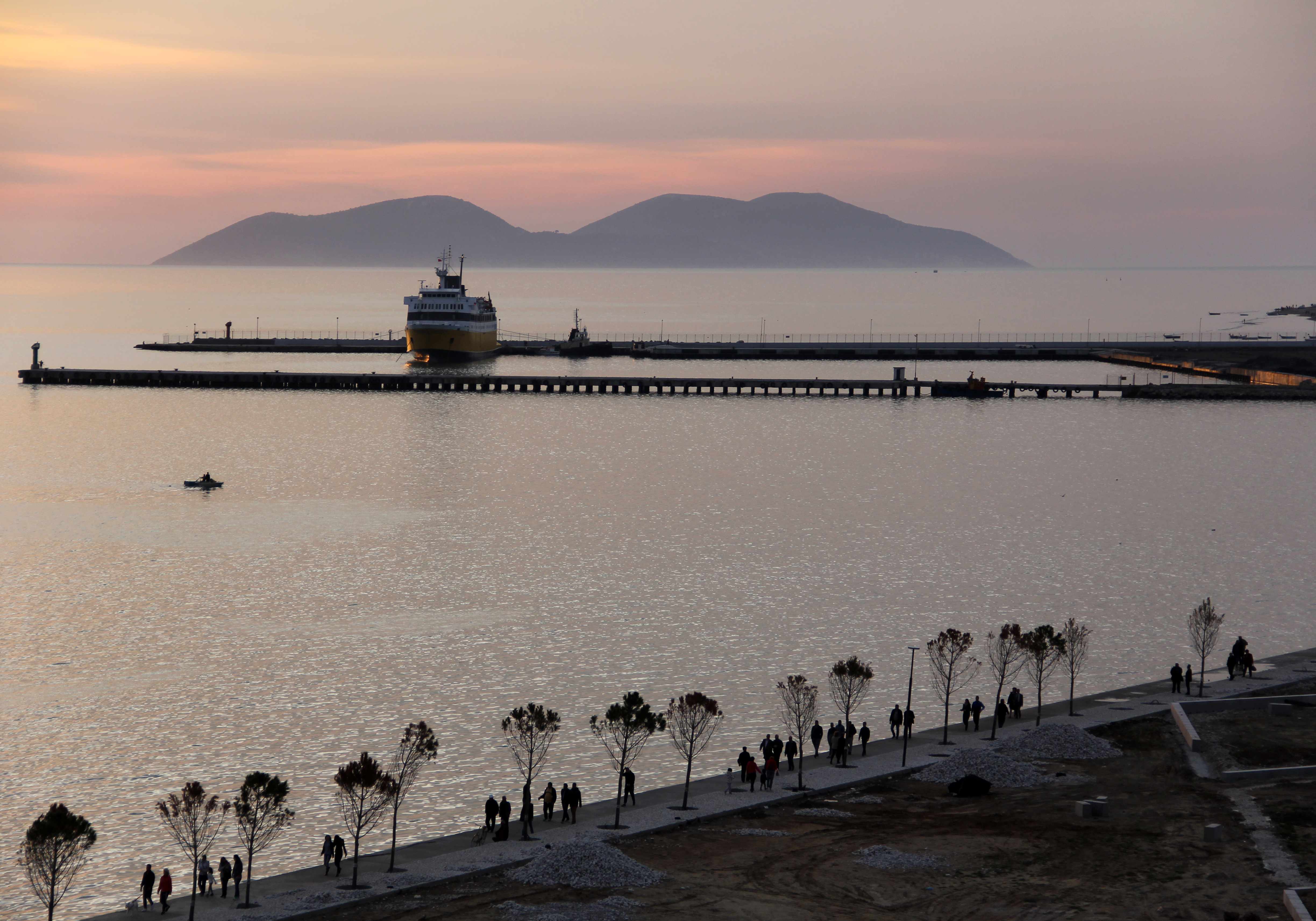 Valona Albania